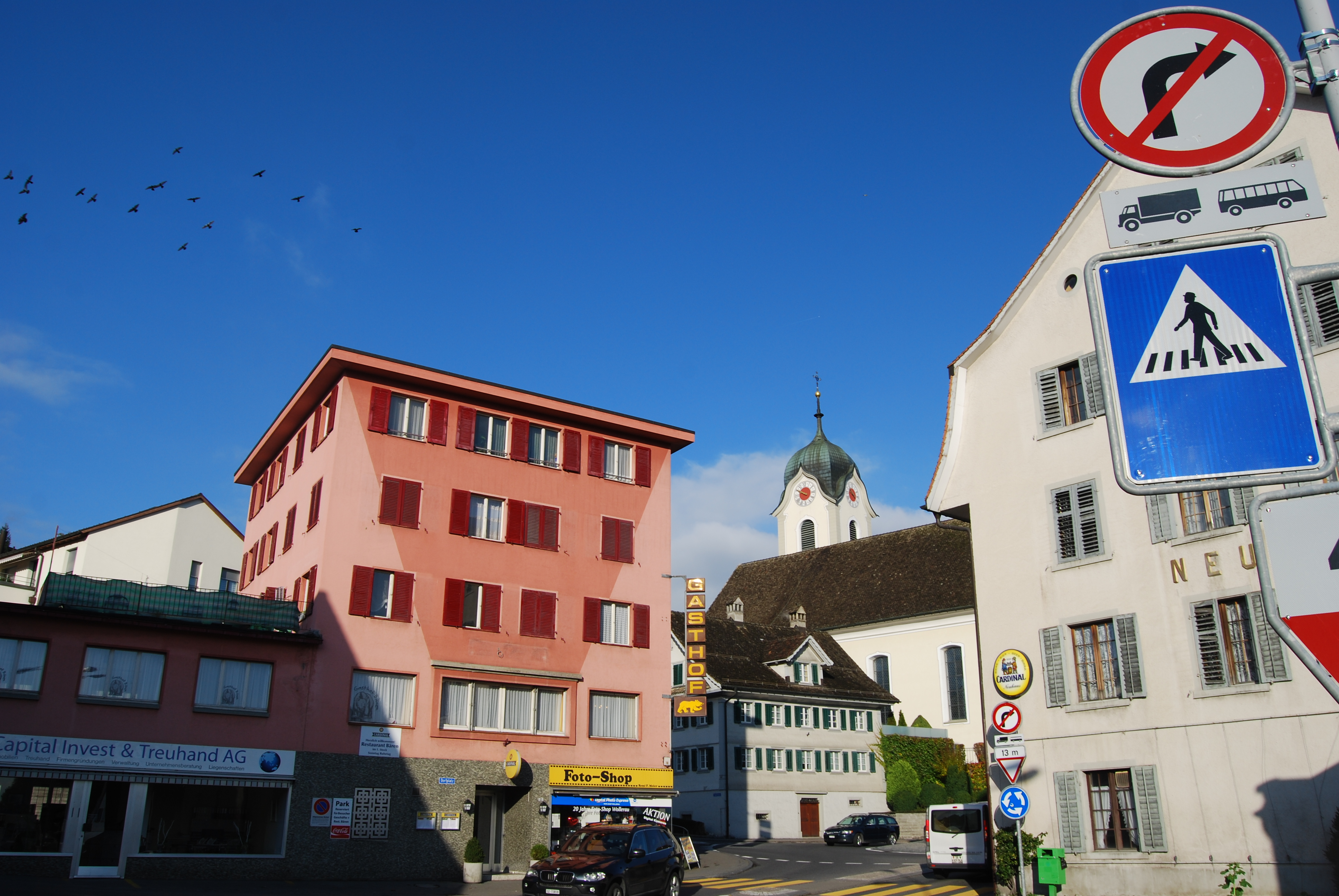 Wollerau, canton of Schwyz, SwitzerlandEsperanto: Wollerau, Kantono Ŝvico, Svislando